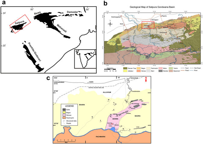 Geographic and geological occurrence of Shringasaurus indicus gen. et sp. nov. (a) Map of the major Gondwana basins of peninsular India (after45), in which the red rectangle indicates the Satpura Basin. (b) Complete geological map of the Satpura Gondwana Basin (after45). (c) Close up of the geology of the area (marked in red rectangle in (b) from where Shringasaurus was collected (after9). Note that the Shringasaurus bone-bed is in the Denwa Formation and the red rectangle marked in the map indicates the Shringasaurus locality.